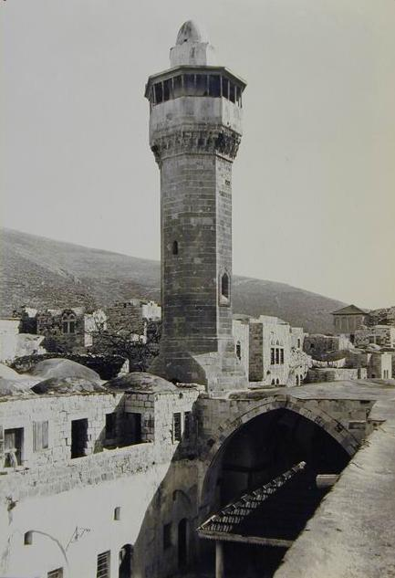 An old photo of Nablus' Great Mosque minaret